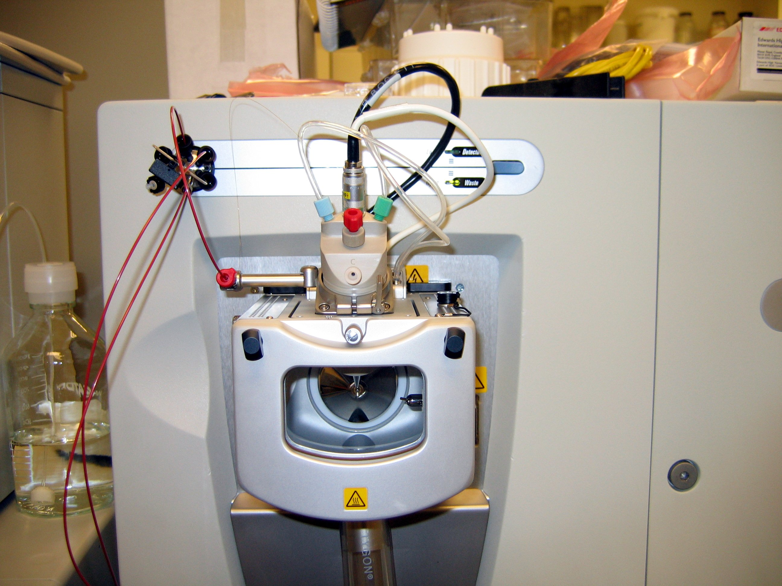 LTQ-ESI. The electrospray interface on the LTQ (Linear Trap Quadrupole).